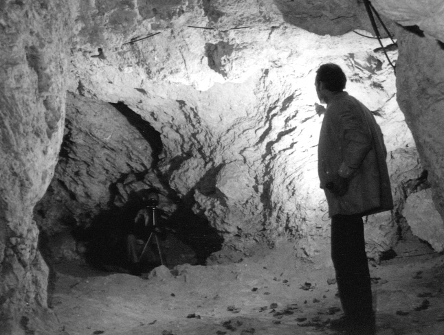 Inside of Tihanyi Forrás Cave in Tihany.